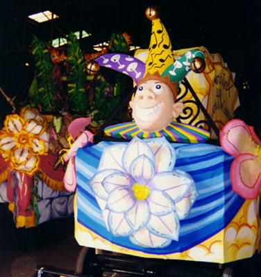 New Orleans Carnival: Krewe du Vieux title float Photo by Infrogmation